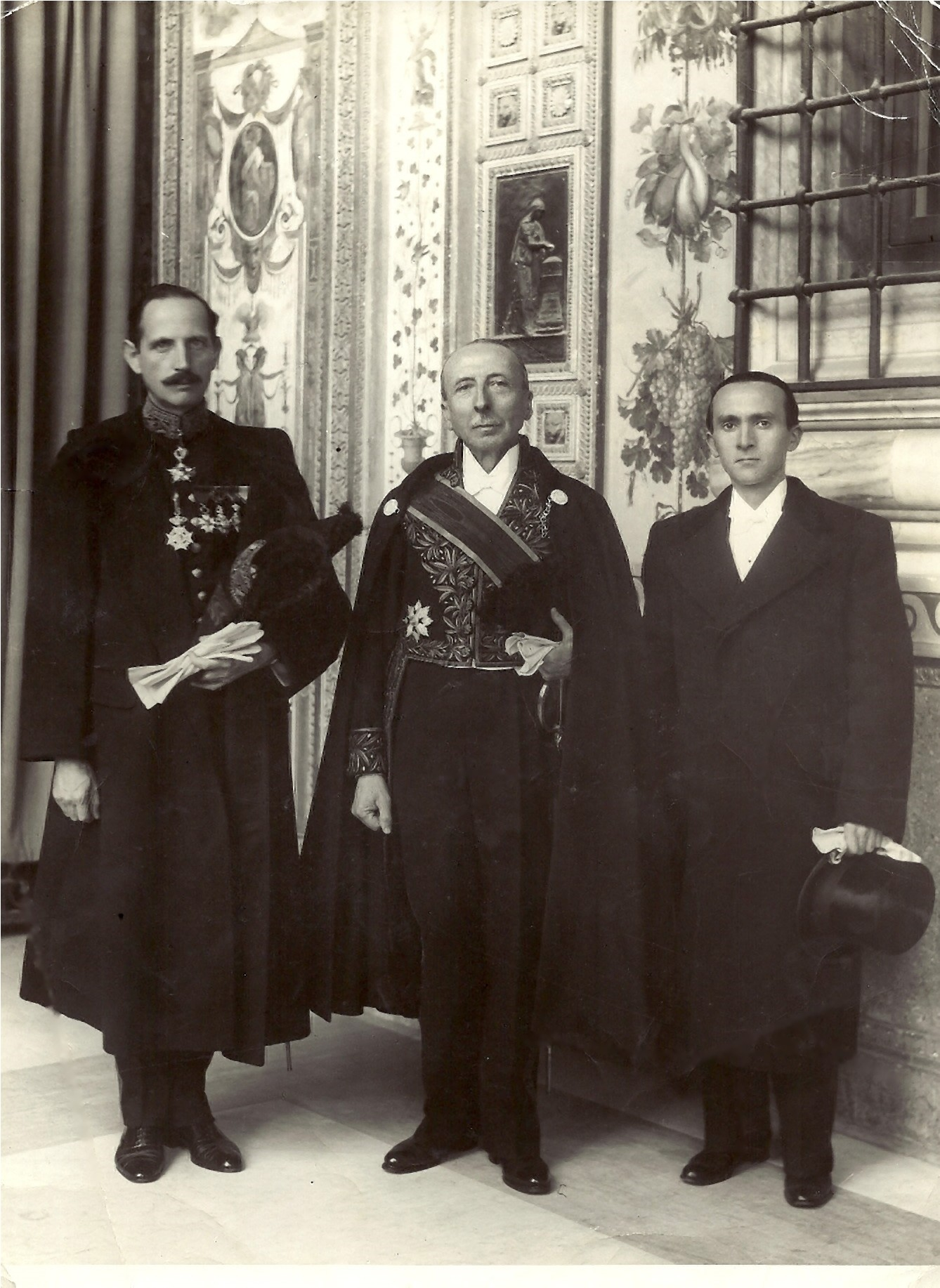 French Diplomats to the holy See 1943 "stanze di Rafaello"